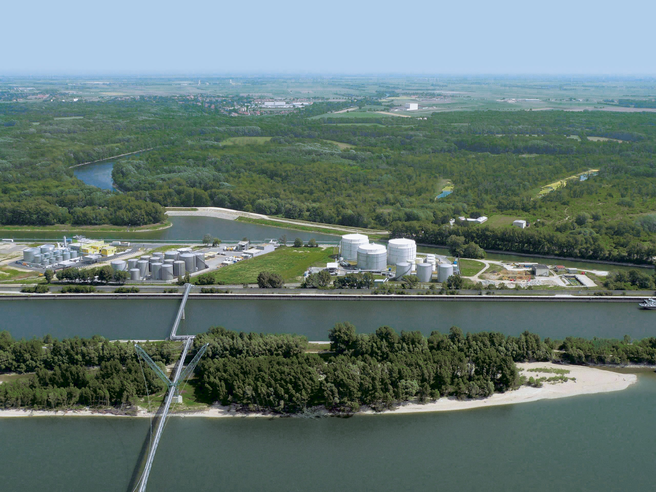 A view of the branching-off place of the water corridor D-O-E at Lobau (var. B and C). At the front, the main bed of the Danube; behind, a recently established floodway; at the back, some kilometers long wrking section of the D-O-E canal (right flowing into the port of Lobau (left).